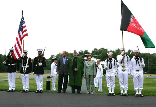 President George W. Bush and Mrs. Laura Bush stand with President Hamid Karzai of Afghanistan during an arrival ceremony at Camp David, Sunday, August 5, 2007. White House photo by Chris Greenberg